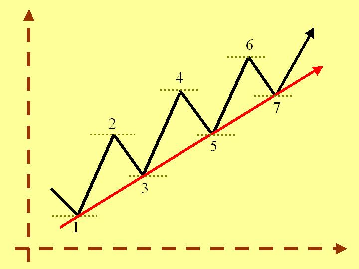 Descripción: es: Diagrama de línea de tendencia alcista en: Support line, as used in the technical analysis of stocks. If the stock is trading at or slightly above the line, this is a buy signal; however, if it breaks through the line and falls further, this is a sell signal. Source: Trabajo propio Date: Julio 19, 2006 Author: LCB Permission: Dominio Público